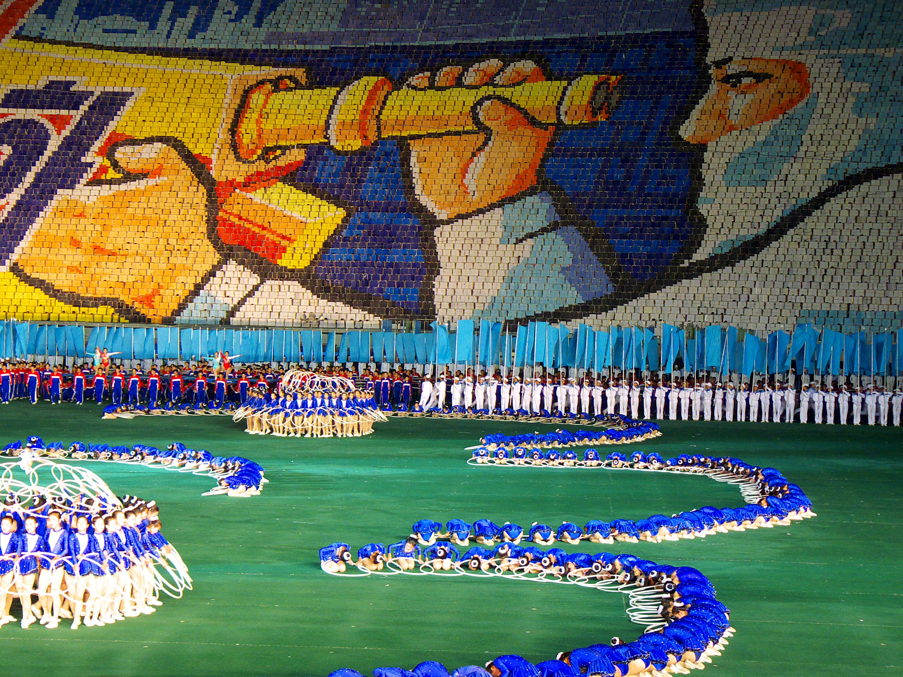 The Arirang Mass Games, held in the Rungnado May Day stadium (incidentally the largest in the world by seating capacity), retells the history of the country, well, their version of it at least. The performance is famed for huge mosaics created by thousands of school children and complex mass gymnastics and dance routines.